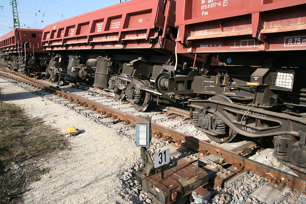 freight cars derailed after running over a derailer at the main railway station of Ingolstadt, Germany.